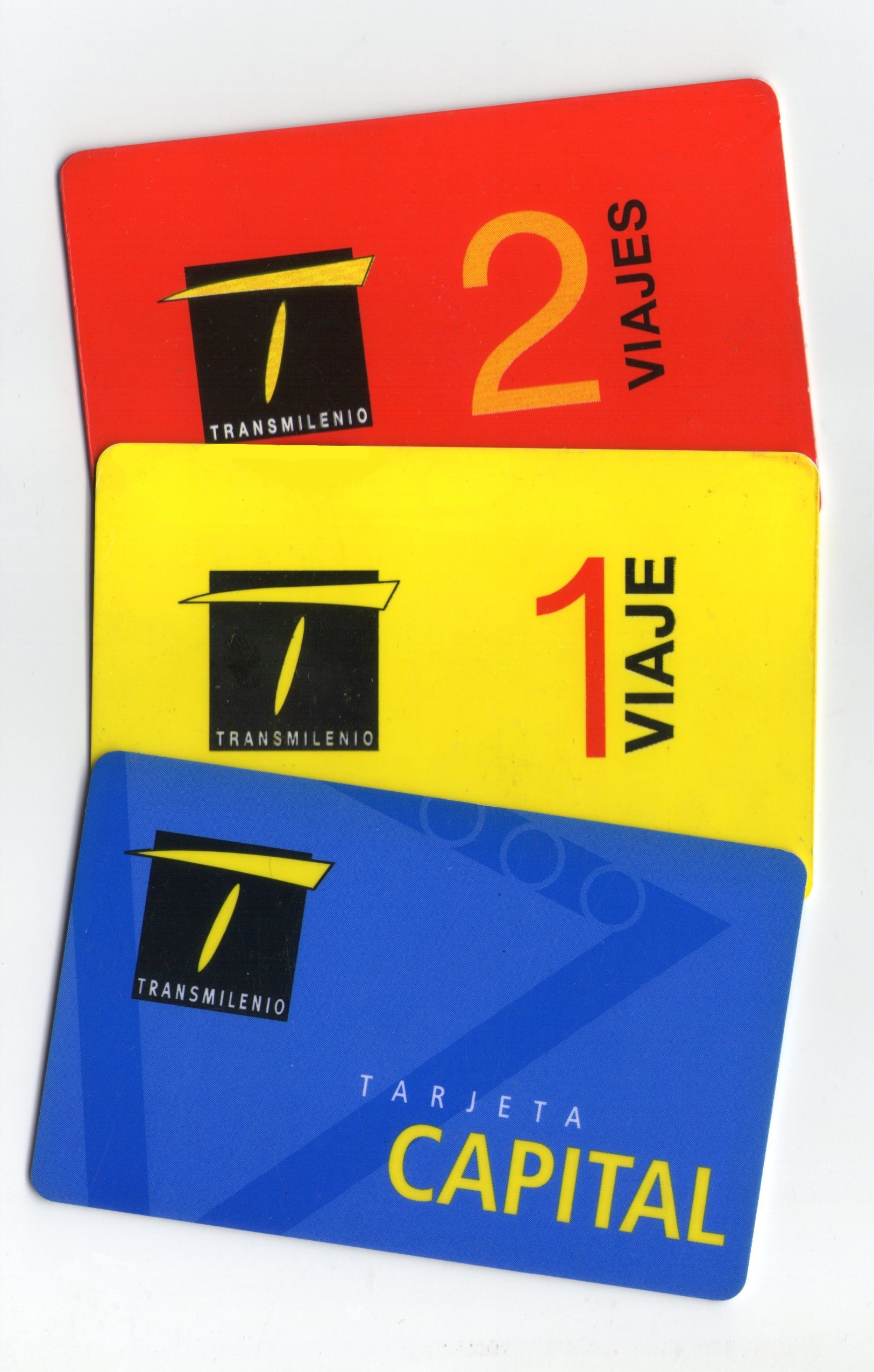 a picture about Transmilenio cards